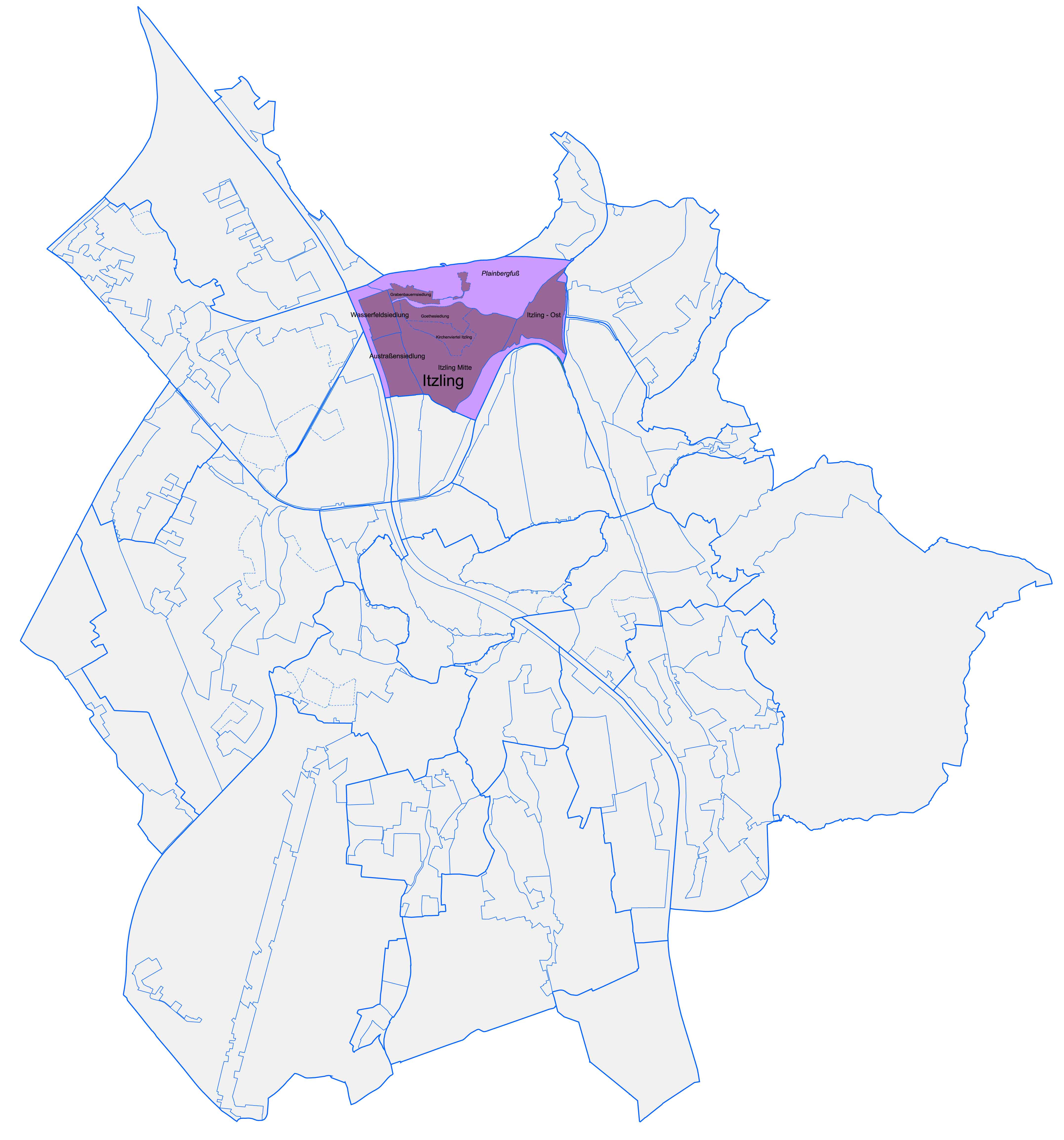 a quarter of the town of Salzburg: Itzling